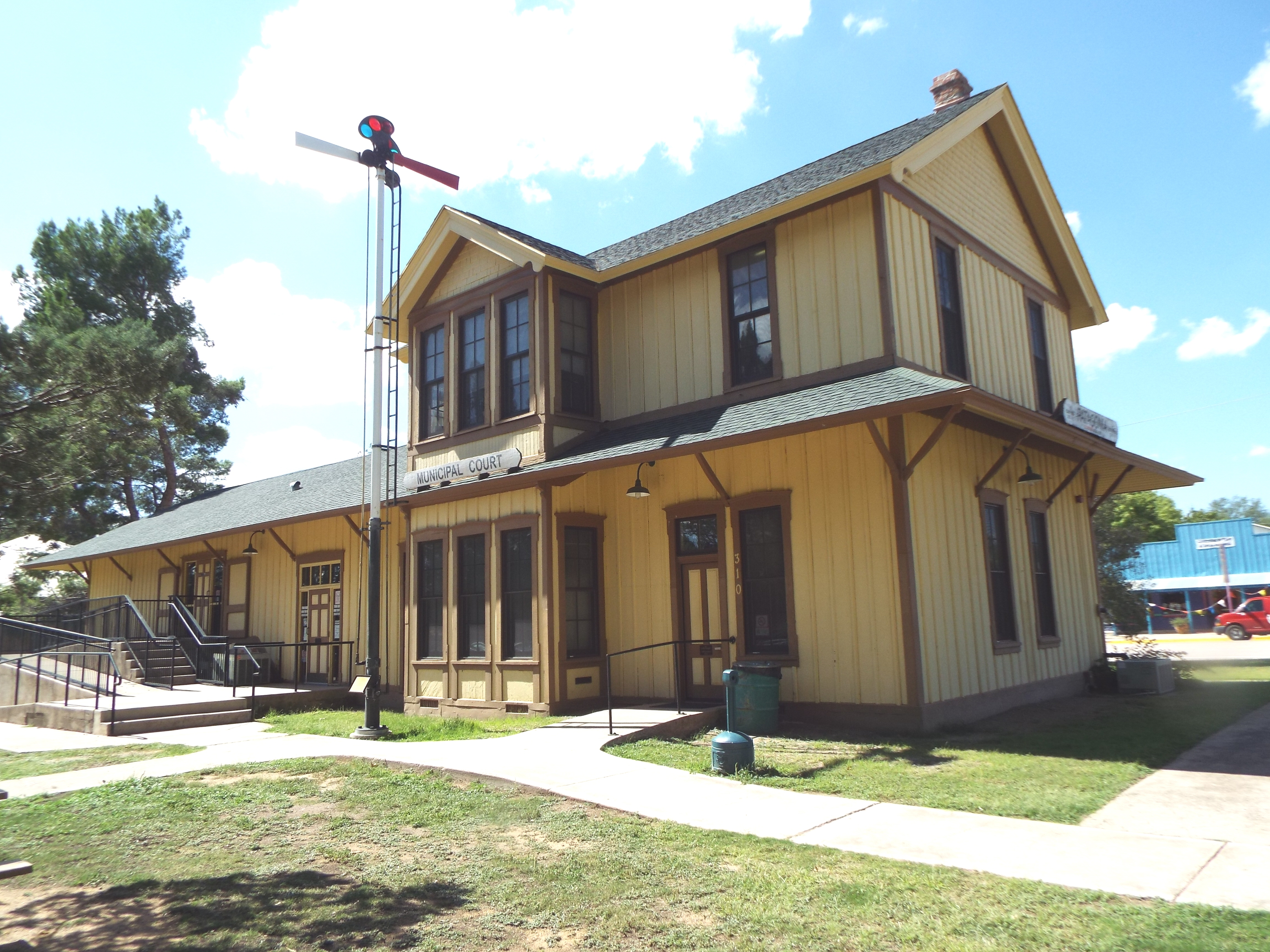 The 1900 Patagonia Depot in Patagonia, AZ